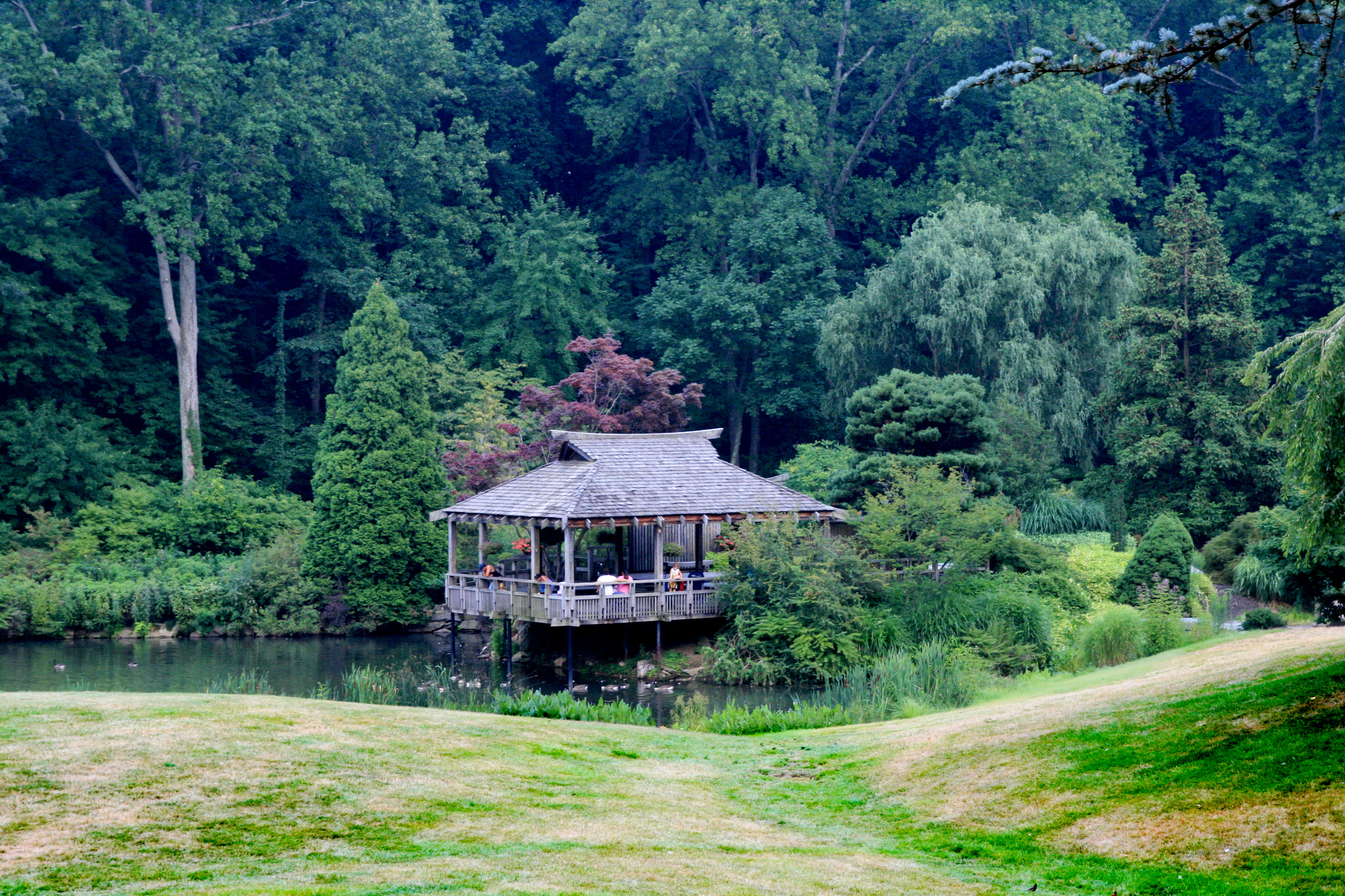 The pond and teahouse at Brookside Gardens, located in Wheaton Regional Park, Silver Spring, Maryland, USA.